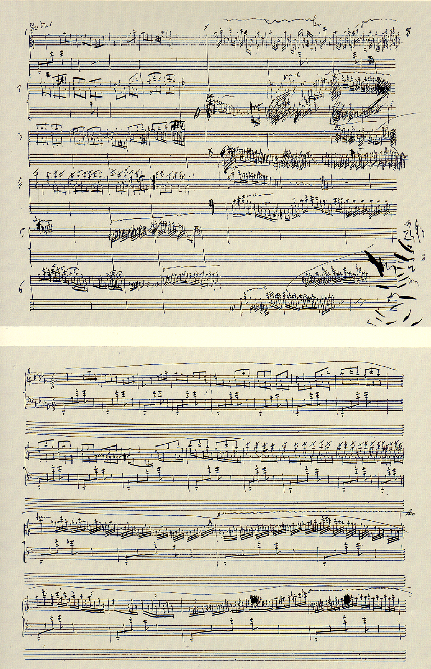 Sketch and first page of the manuscript of Chopin's Berceuse in D-Flat Major op. 57